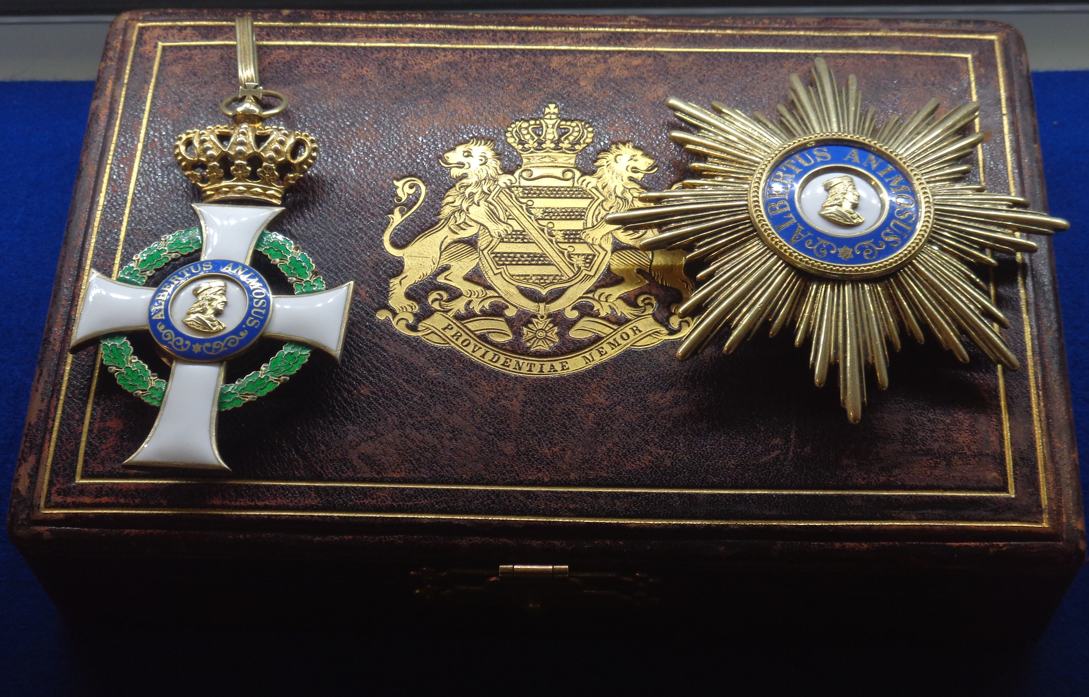 Albert Order, badge and star of Grand Cross, c. 1900. Kingdom of Saxony. The exhibition of the Tallinn Museum of Orders of Knighthood, Estonia.